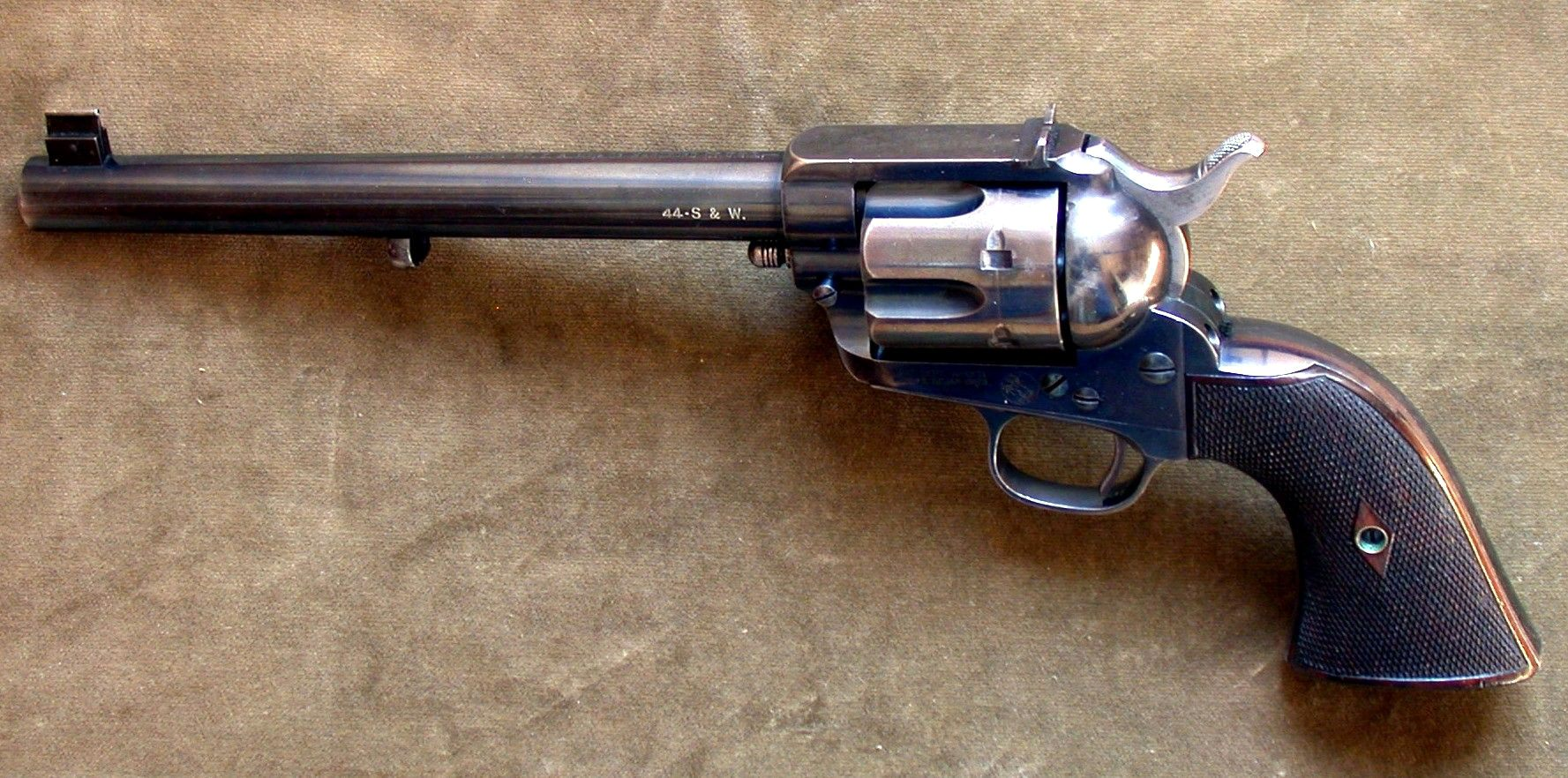 Colt SAA Flattop Target Revolver